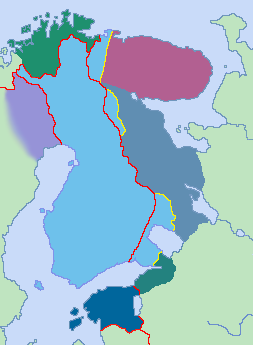 Map of Greater Finland. Edited from Europe colour coded.png